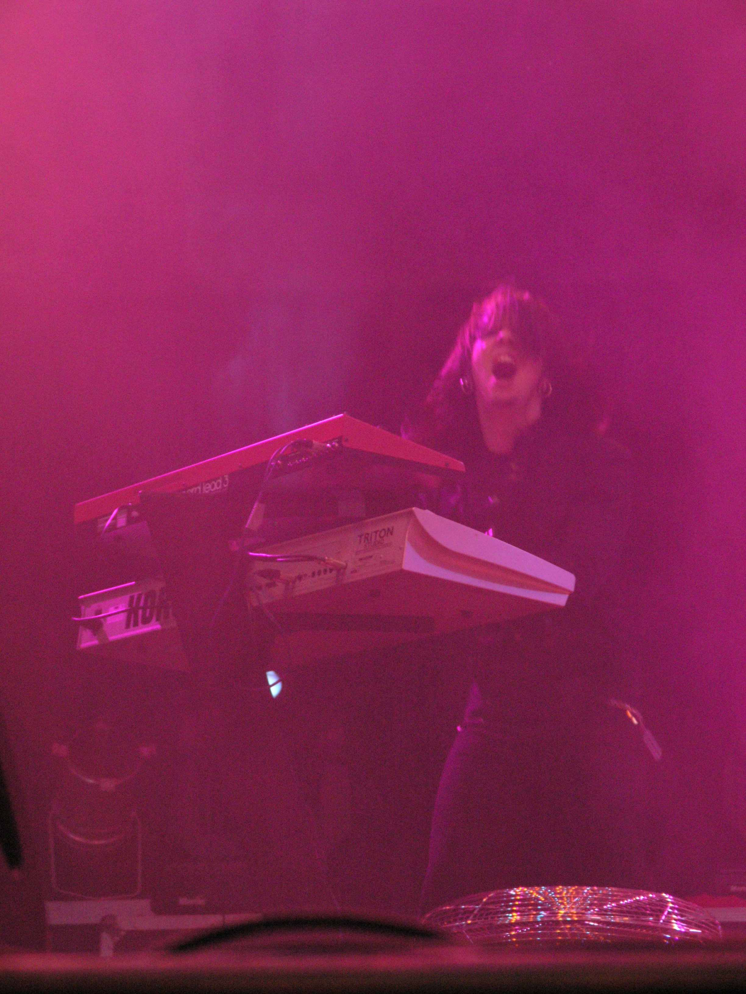 Joost van den Broek from After Forever during Masters of Rock 2007 festival